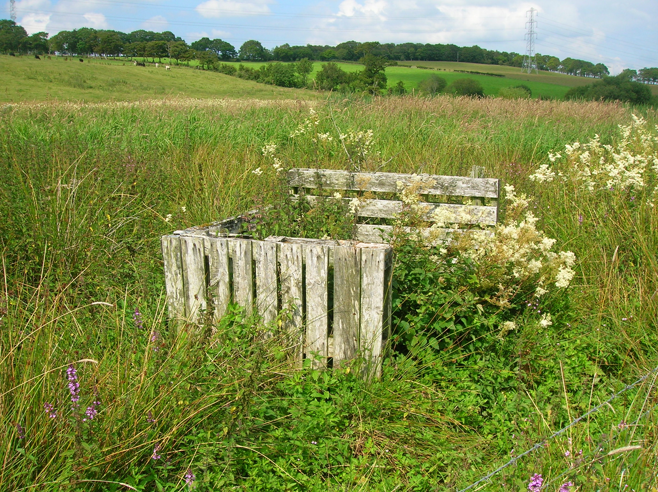 A watefowl shooting hide, Lochend Loch, Joppa, South Ayrshire, Scotland.